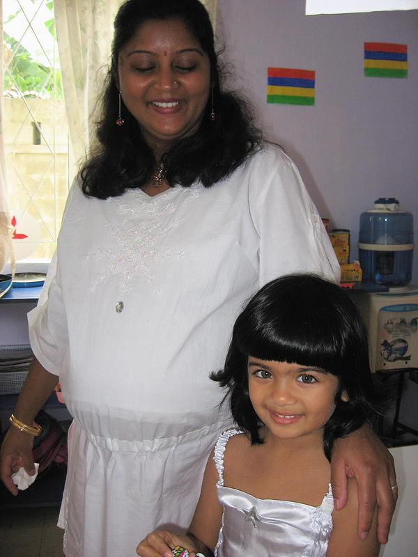 Child with teacher in Mauritius